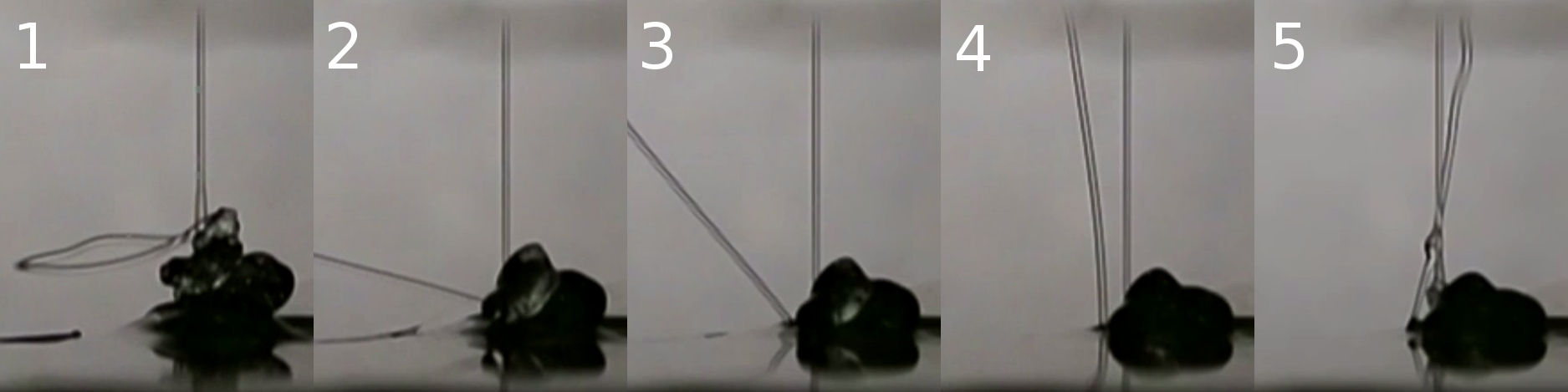 One cycle of the kaye-effect in 5 still images